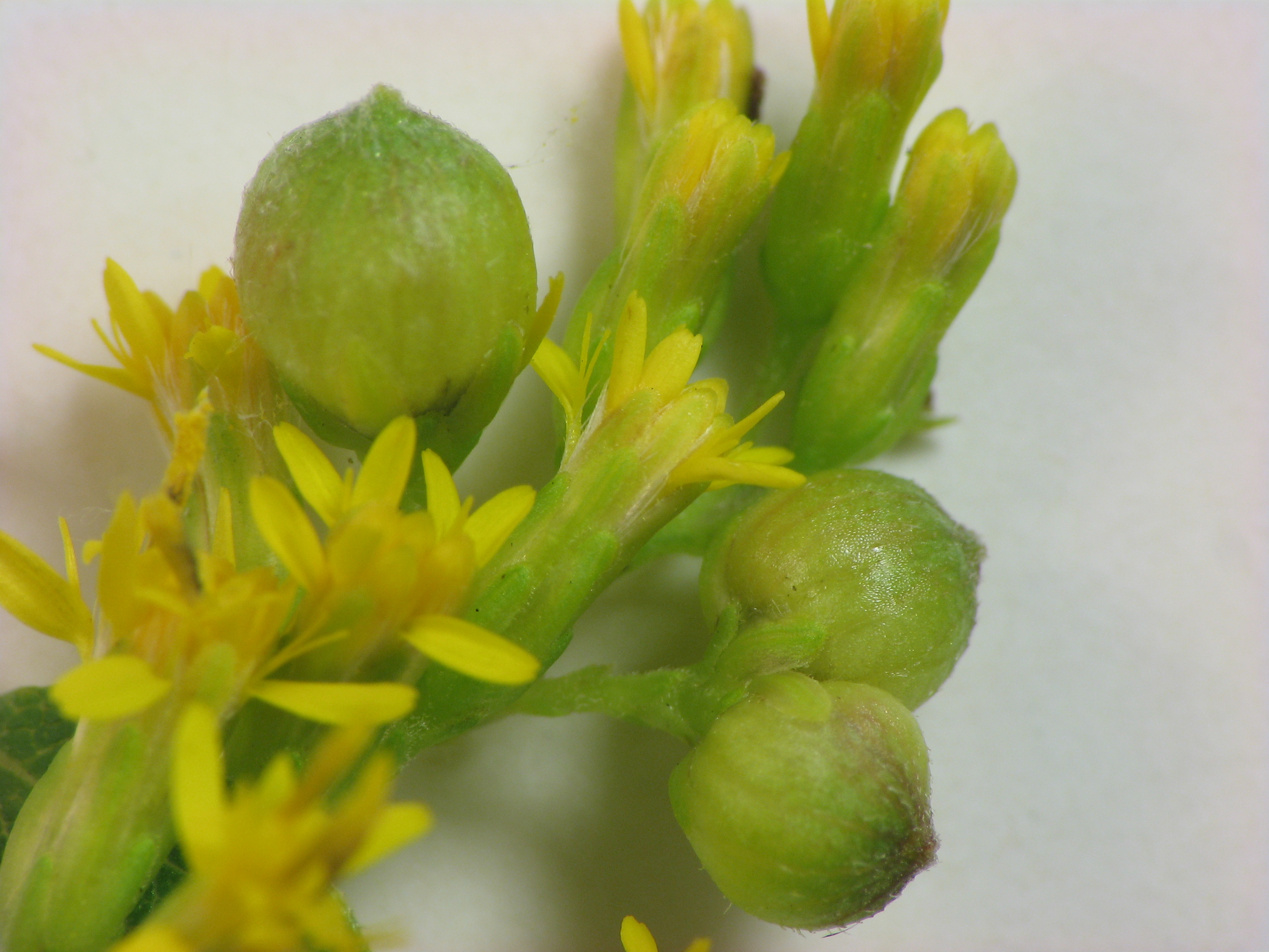 Galls in goldenrod of the midge Schizomyia racemicola. Horsham Trail, Montgomery County, Pennsylvania, USA.